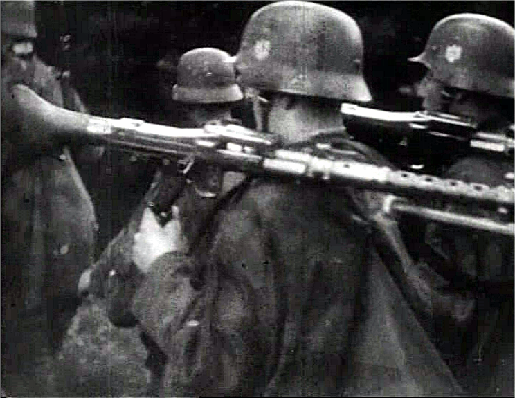 German infantry equipped with MG 34 marching on during the Invasion of Poland. Screenhot taken from the 1943 United States Army propaganda film Divide and Conquer (Why We Fight #3) directed by Frank Capra and partially based on, news archives, animations, restaged scenes and captured propaganda material from both sides.